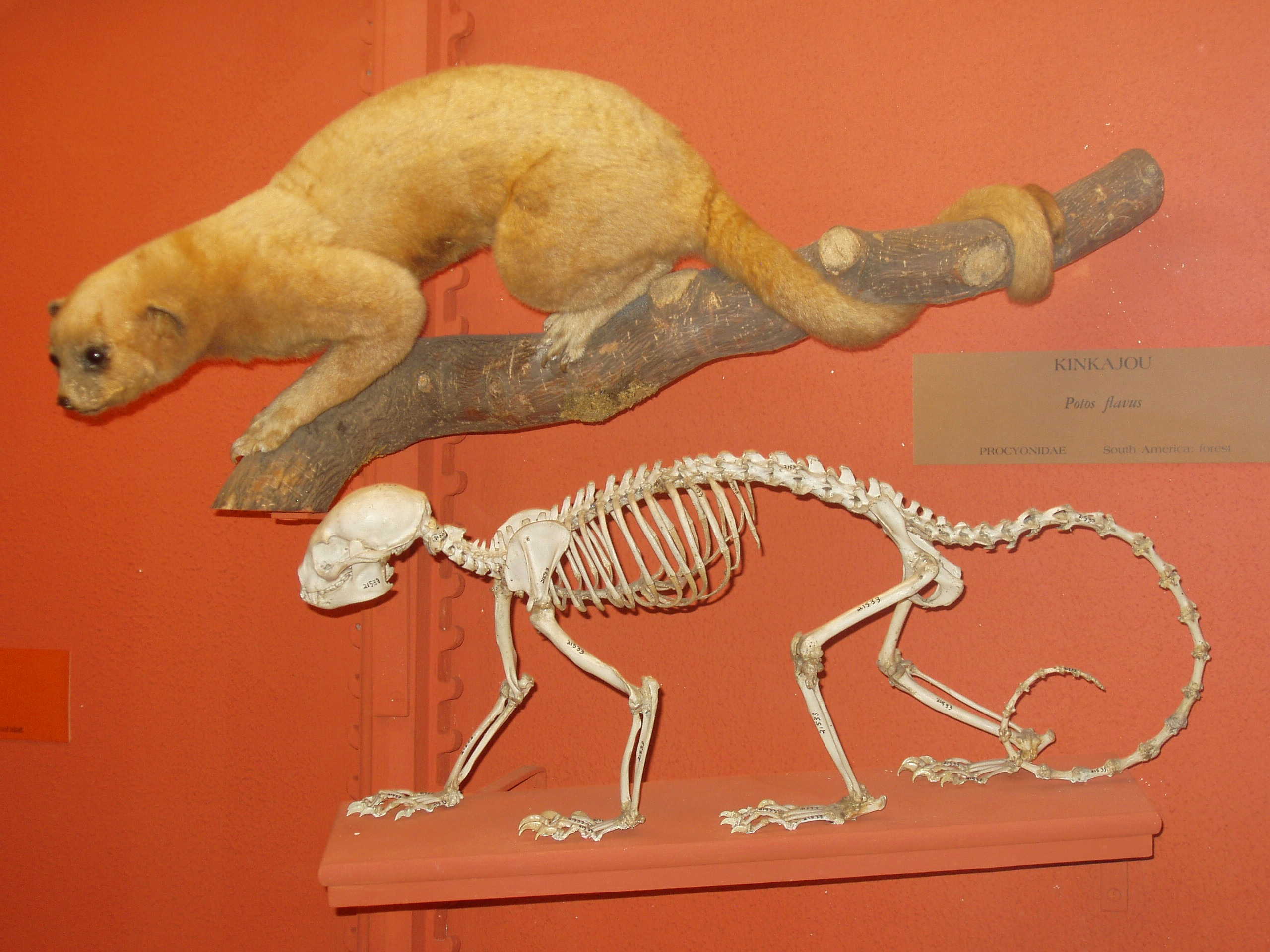 This is a photograph of a Kinkajou (Potos flavus). This photograph is from the Harvard Museum of Natural History / Peabody Museum. Although no copyright has been asserted for the subject matter or this image, the museum's photography rule is as follows: "No commercial photography or video cameras permitted in the museum without written permission." [Museum pamphlet, May 2007.]